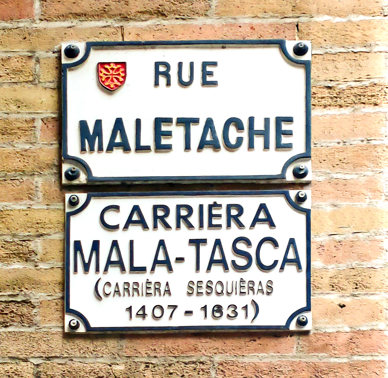 Street name sign in Toulouse. They have the particularity of being: in French and Occitan. Rue Maletache.